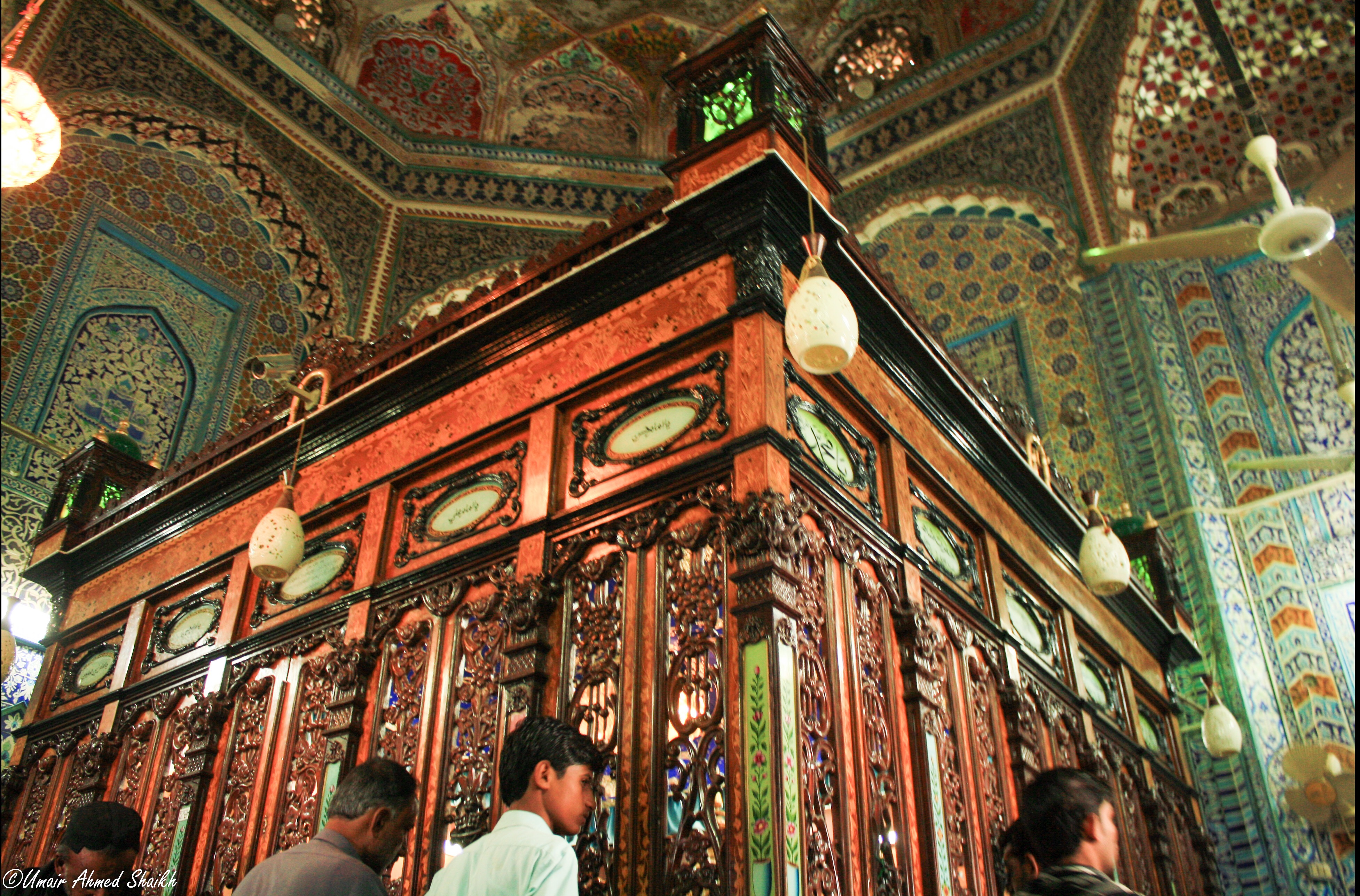 Sindh's famous Sufi poet, Shah Abdul Latif Bhittai's shrine in Bhit Shah